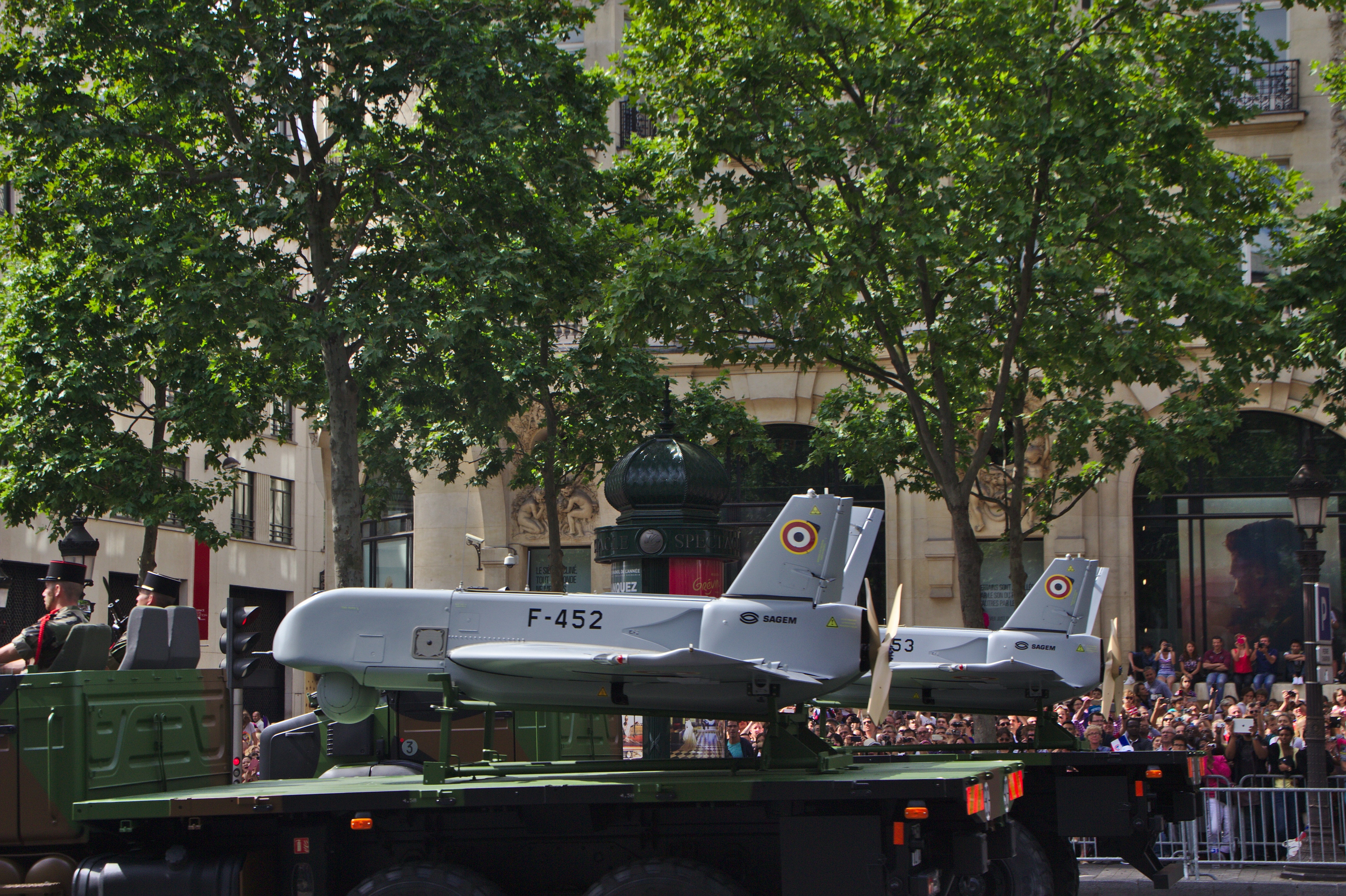 Bastille Day 2015 military parade in Paris.